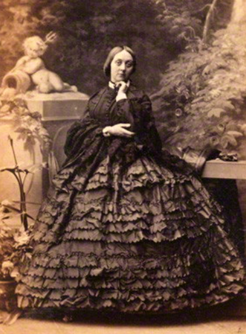 Albinia Frances Leslie-Melville, wife of Alexander Samuel Leslie-Melville, owner of Branston Hall, Lincolnshire.